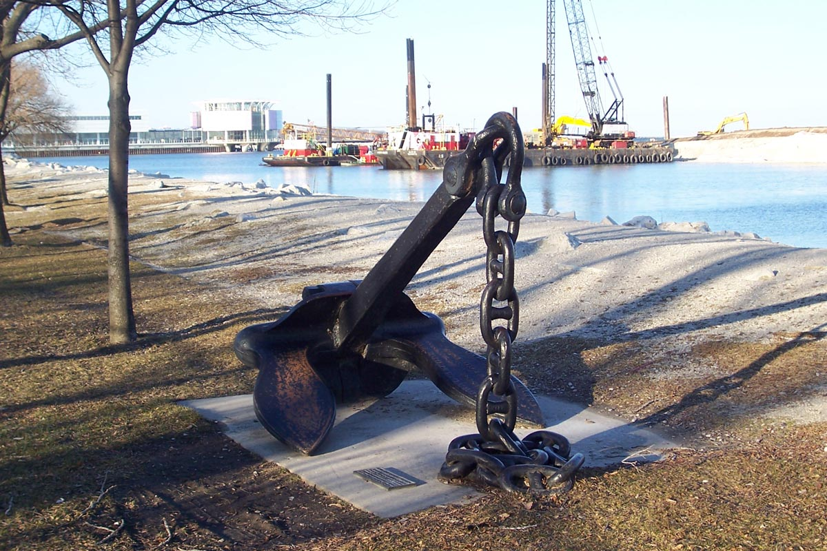 The anchor from the railroad car ferry S.S. Milwaukee. It was recovered by Roger Chapman in 1973 and donated to the City of Milwaukee.